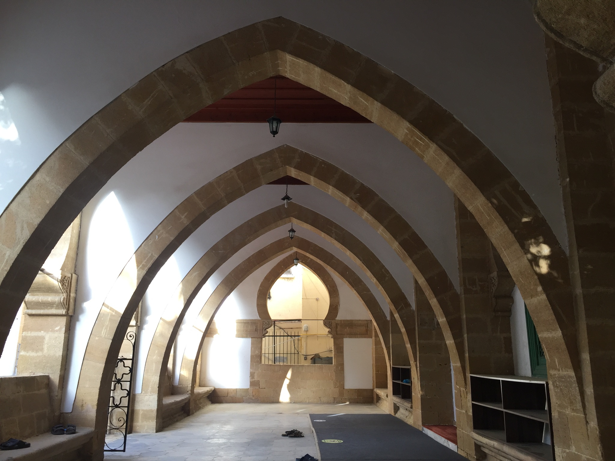 Sarayönü Mosque